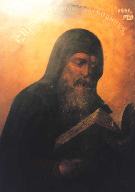 Saint Lawrence the Recluse, the hermit at Kyiv Caves Monastery, Ukraine. Orthodox saint from the 13th century.